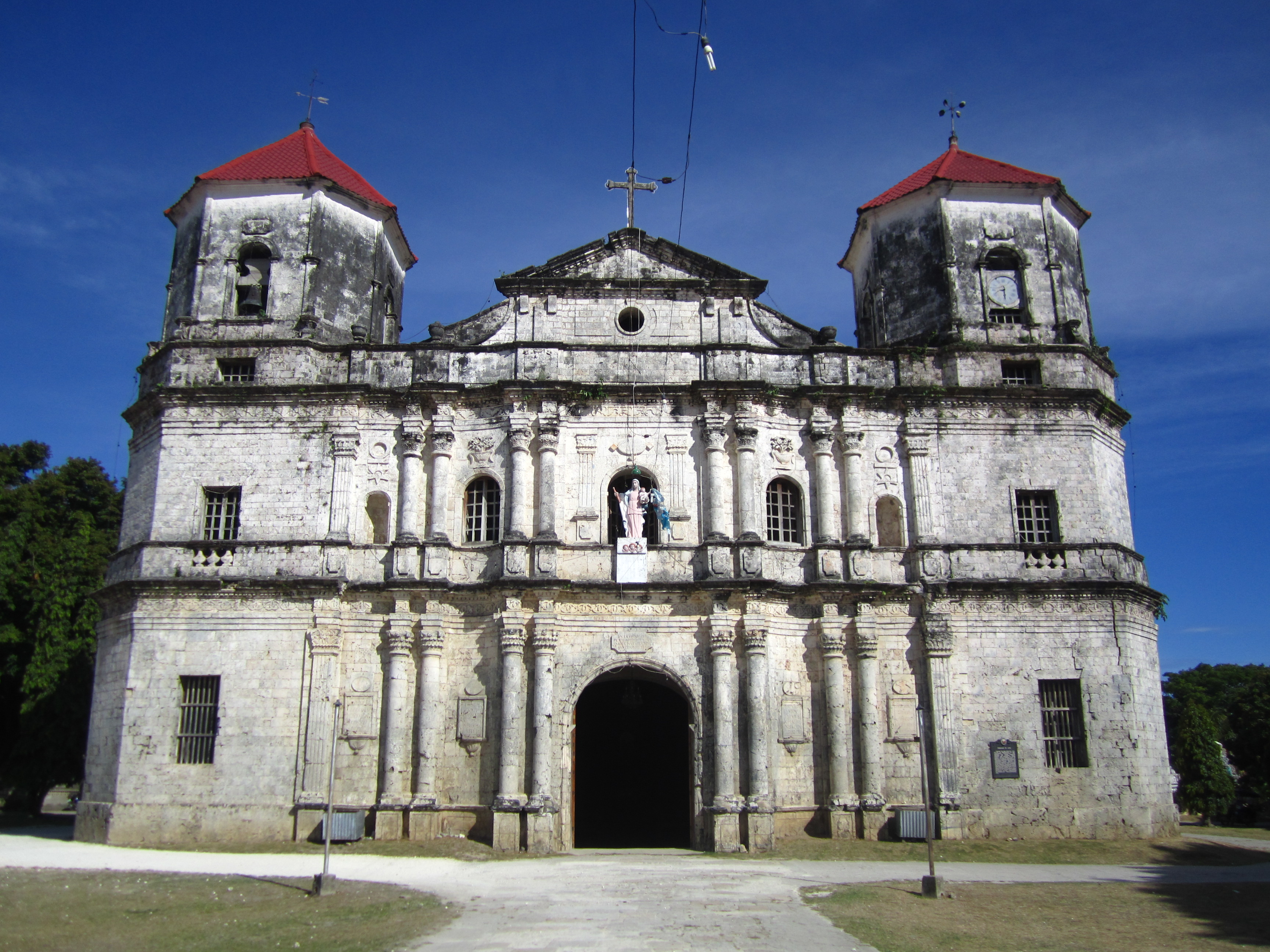 The largest church in Bohol province, and Queen of Augustinian Recollect church architecture